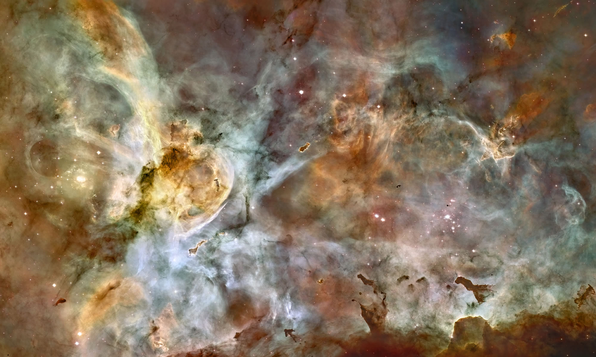 Hubble